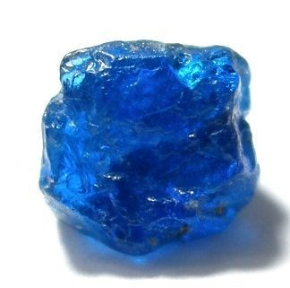 Haüyne Locality: Mayen, Eifel Mts, Rhineland-Palatinate, Germany (Locality at ) Size: 1.1 x 0.9 x 0.8, 0.4 x 0.4 x 0.3 cm. Named in honor of the famed, 19th. Century crystallographer and mineralogist, Abbe Rene Just Hauy, this matrix specimen has glassy and gemmy, vibrant, rich blue "crystals" nestled in a vug. They are crystals, just filling a pocket so there is no crystalline face to see. The loose crystal measures .5 cm across. Hauyne is a rare, sodium, calcium, aluminum, silicate, sulfate occurring in the occasional weird volcanic zone. This is a neat example from the old classic locale from which it is best known.